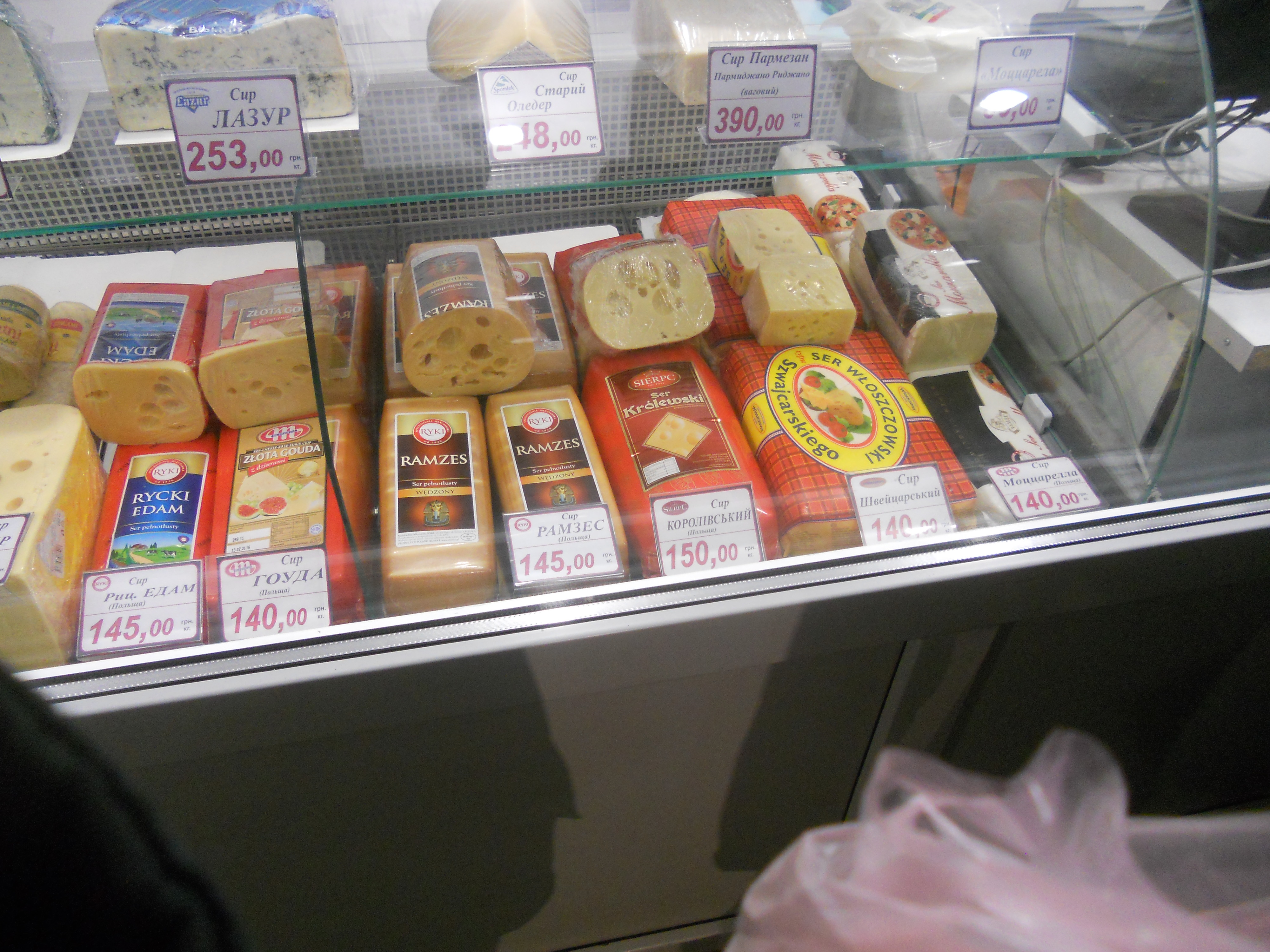 Cheese market in Kyiv, Ukraine